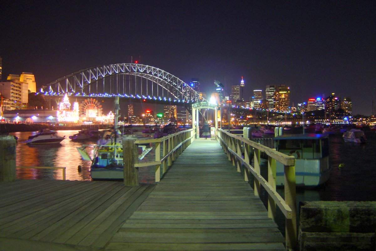 Lavender Bay Wharf, Lavender Bay, NSW, Australia.